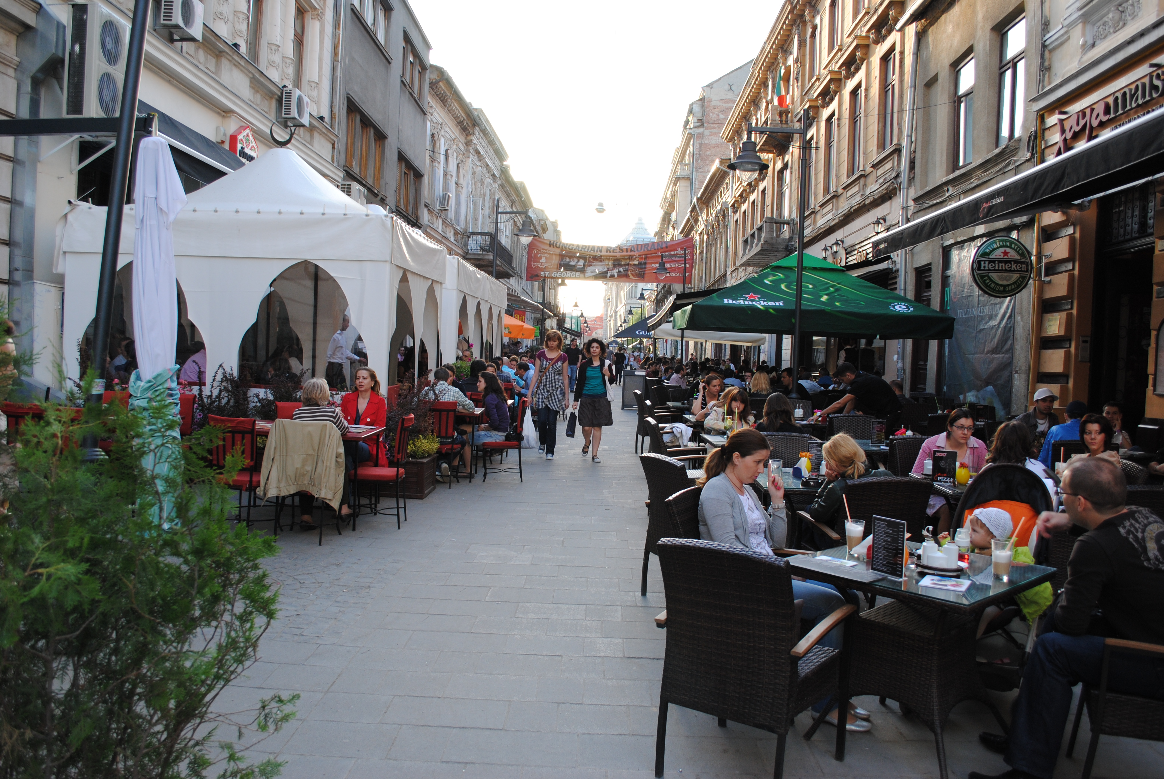 Terraces and bars in Bucharest's Old City (Strada Franceză).